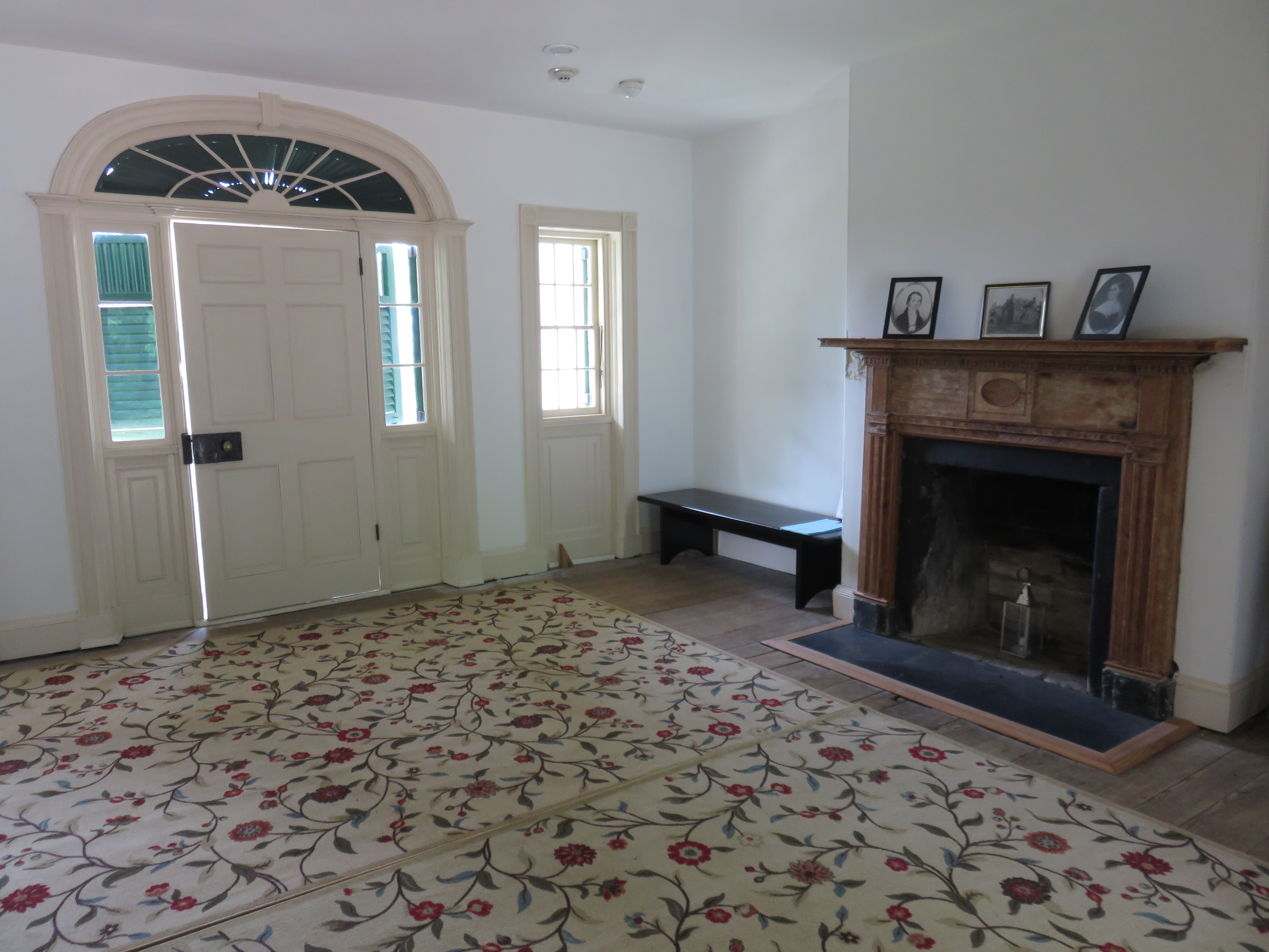 Historic Huntley plantation in Hybla Valley, Virginia in 2019